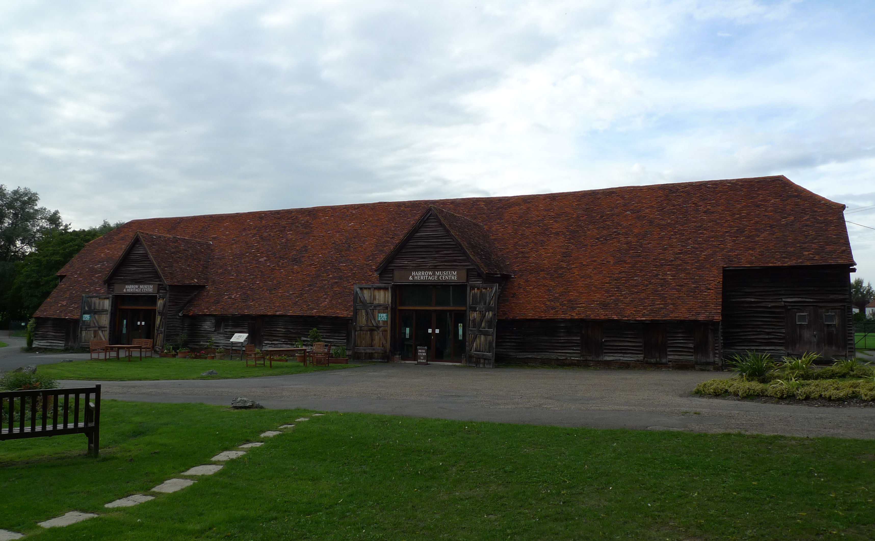 Barn South West of Headstone Manor